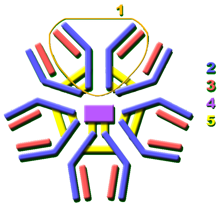 Modified version of Image:IgM.png